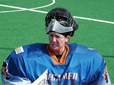 Ginny Capicchioni playing for Boston Megamen (Memorial Alese Hrebeskeho boxlacrosse tournament, Praha - Radotin, Czech Republic, April 2008)